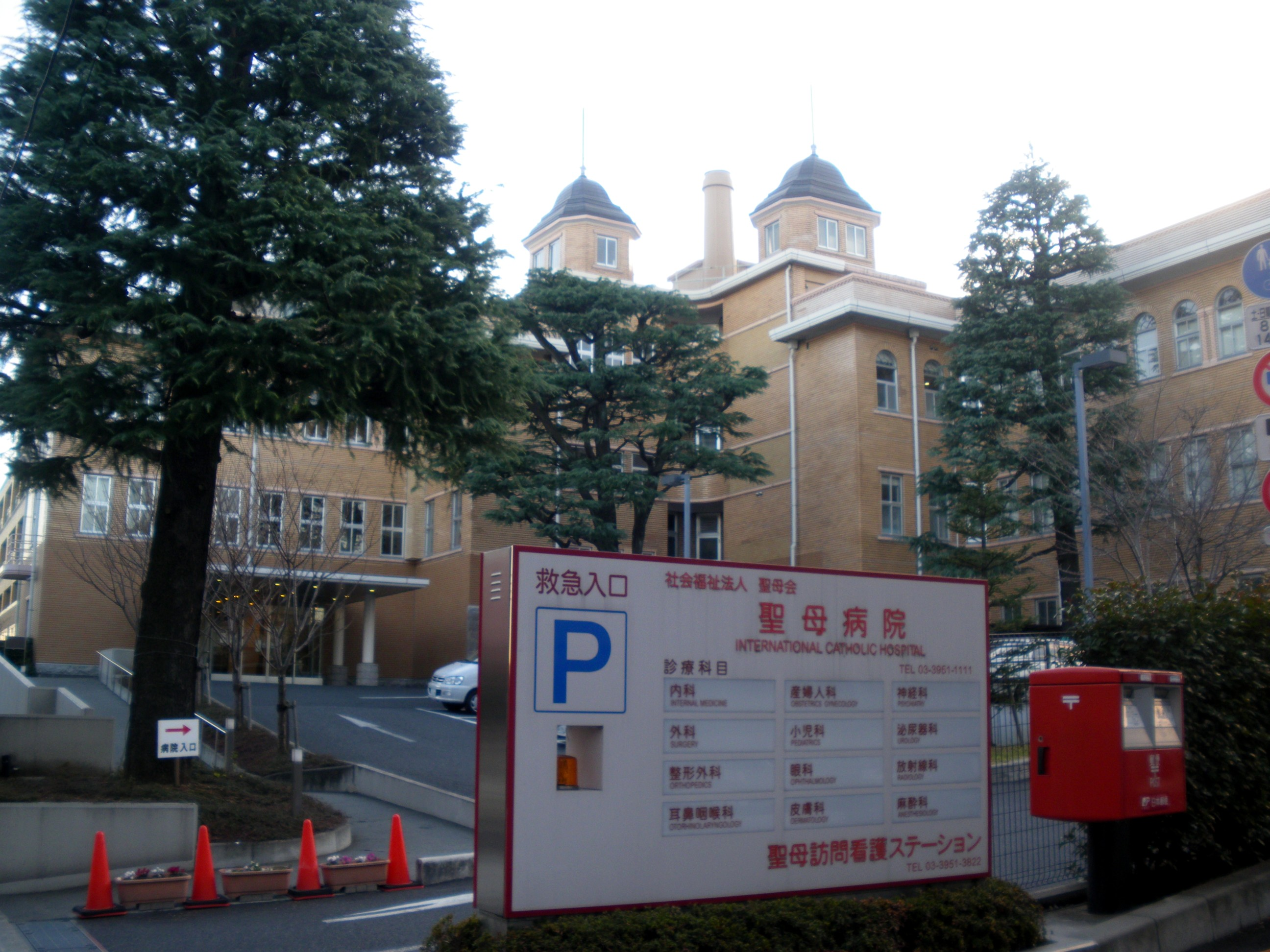 A photo of the entrace of Seibo Hospital(INTERNATIONAL CATHOLIC HOSPITAL),Nakaochiai,Shinjuku-ku,Tokyo,Japan.